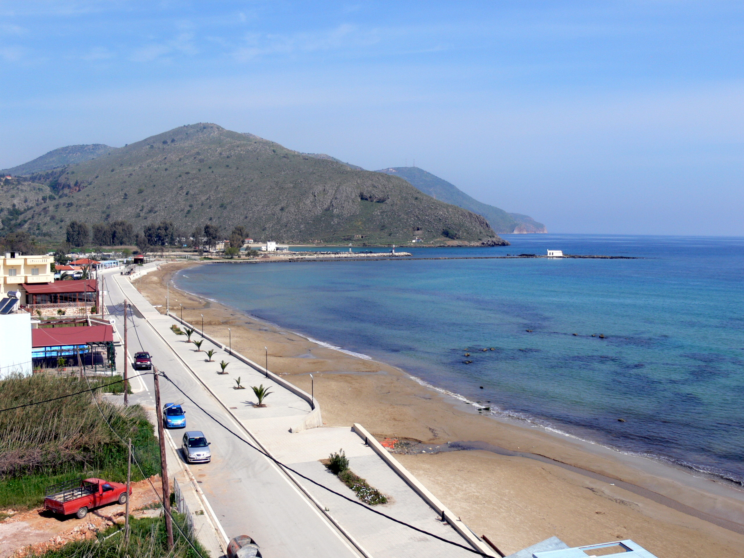 Georgiupolis ( Crete ). Beach and coastline.